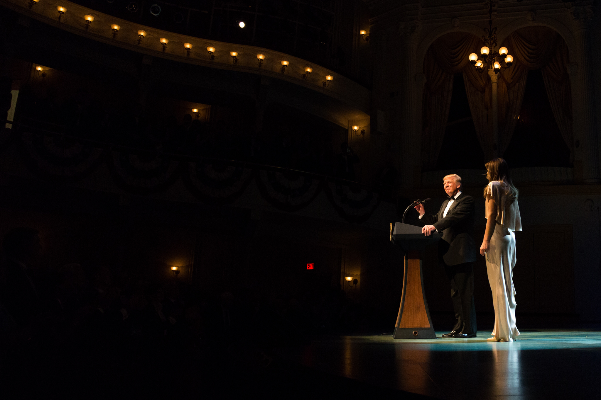 Ford's Theatre | June 4, 2017 (Official White House Photo by Shealah Craighead)